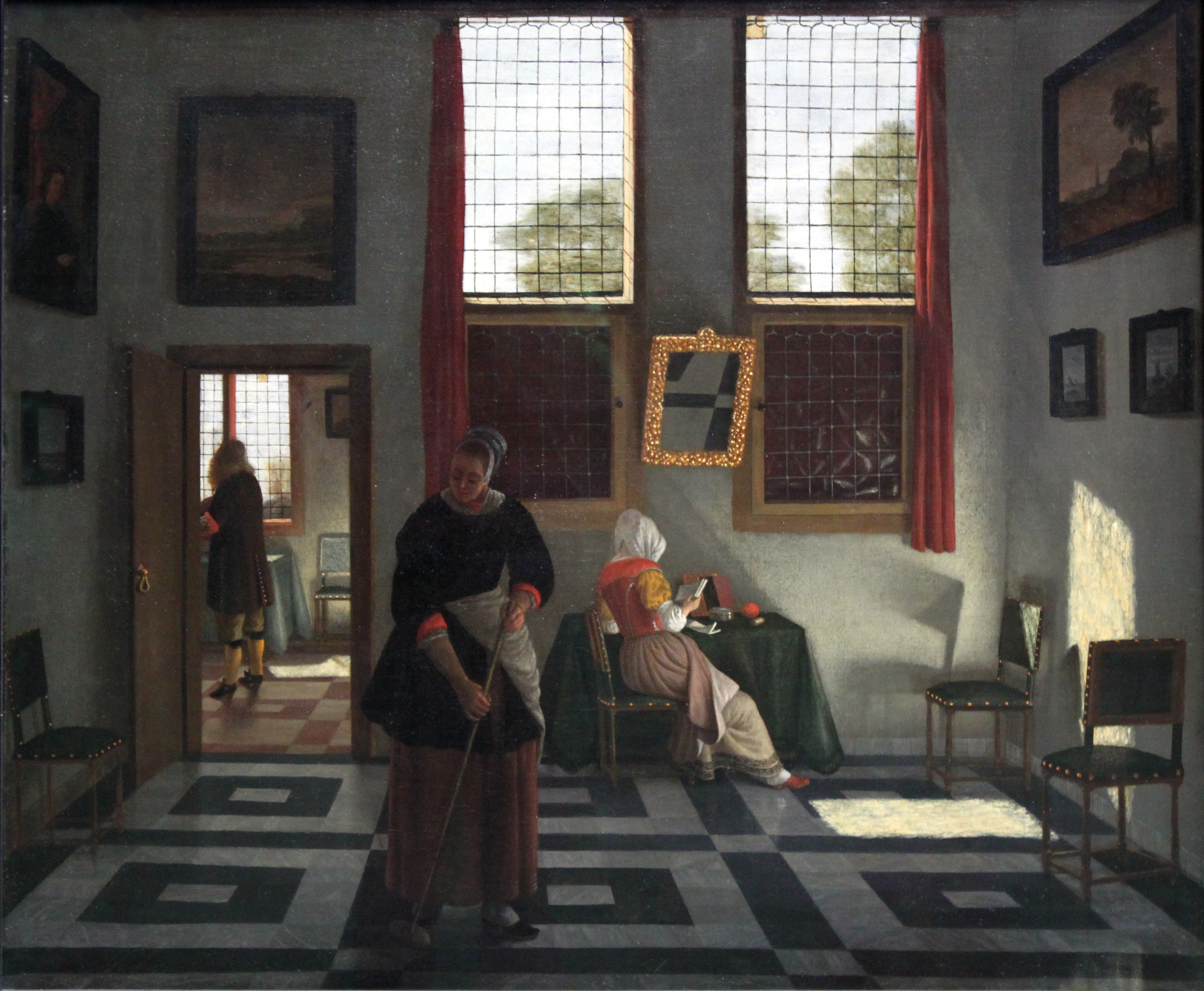 Interior with Painter, Woman Reading and Maid Sweeping